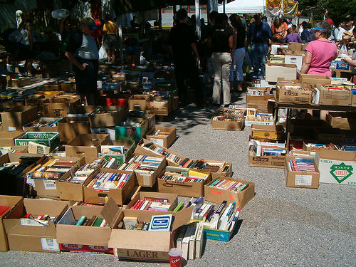 PTA's fundraising book sale at a local labor day festival